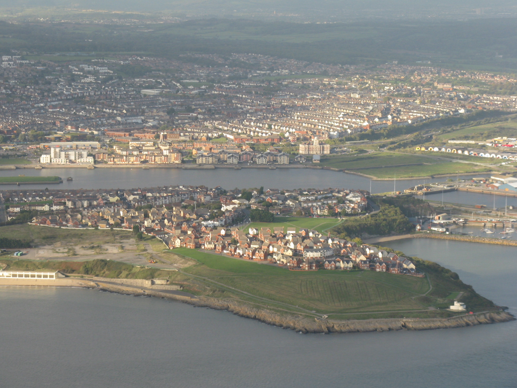 Barry Island and docks, Barry,Vale of Glamorgan